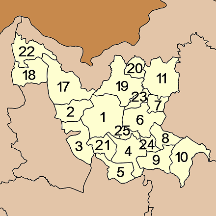 Map of Udon Thani province, Thailand, with the districts (Amphoe) numbered. The missing numbers 12-16 are Amphoe which formed the province Nongbua Lamphu in 1993. Mueang Udon Thani (อำเภอเมืองอุดรธานี) Kut Chap (อำเภอกุดจับ) Nong Wua So (อำเภอหนองวัวซอ) Kumphawapi (อำเภอกุมภวาปี) Non Sa-at (อำเภอโนนสะอาด) Nong Han (อำเภอหนองหาน) Thung Fon (อำเภอทุ่งฝน) Chai Wan (อำเภอไชยวาน) Si That (อำเภอศรีธาตุ) Wang Sam Mo (อำเภอวังสามหมอ) Ban Dung (อำเภอบ้านดุง) Ban Phue (อำเภอบ้านผือ) Nam Som (อำเภอน้ำโสม) Phen (อำเภอเพ็ญ) Sang Khom (อำเภอสร้างคอม) Nong Saeng (อำเภอหนองแสง) Na Yung (อำเภอนายูง) Phibun Rak (อำเภอพิบูลย์รักษ์) Ku Kaeo (sub-district) (กิ่งอำเภอกู่แก้ว) Prachaksinlapakhom (sub-district) (กิ่งอำเภอประจักษ์ศิลปาคม)